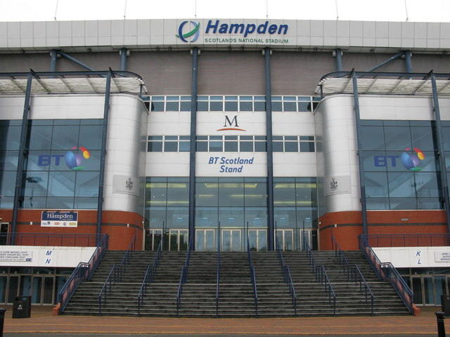 Hampden - Scotland's National Stadium The Main Entrance